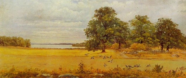 "Eftersommar" (Late Summer) an early naturalistic painting by Hilma af Klint. Painted in Sweden in 1903 and protected by Swedish copyright law until 2014 (life of painter + 70 years).